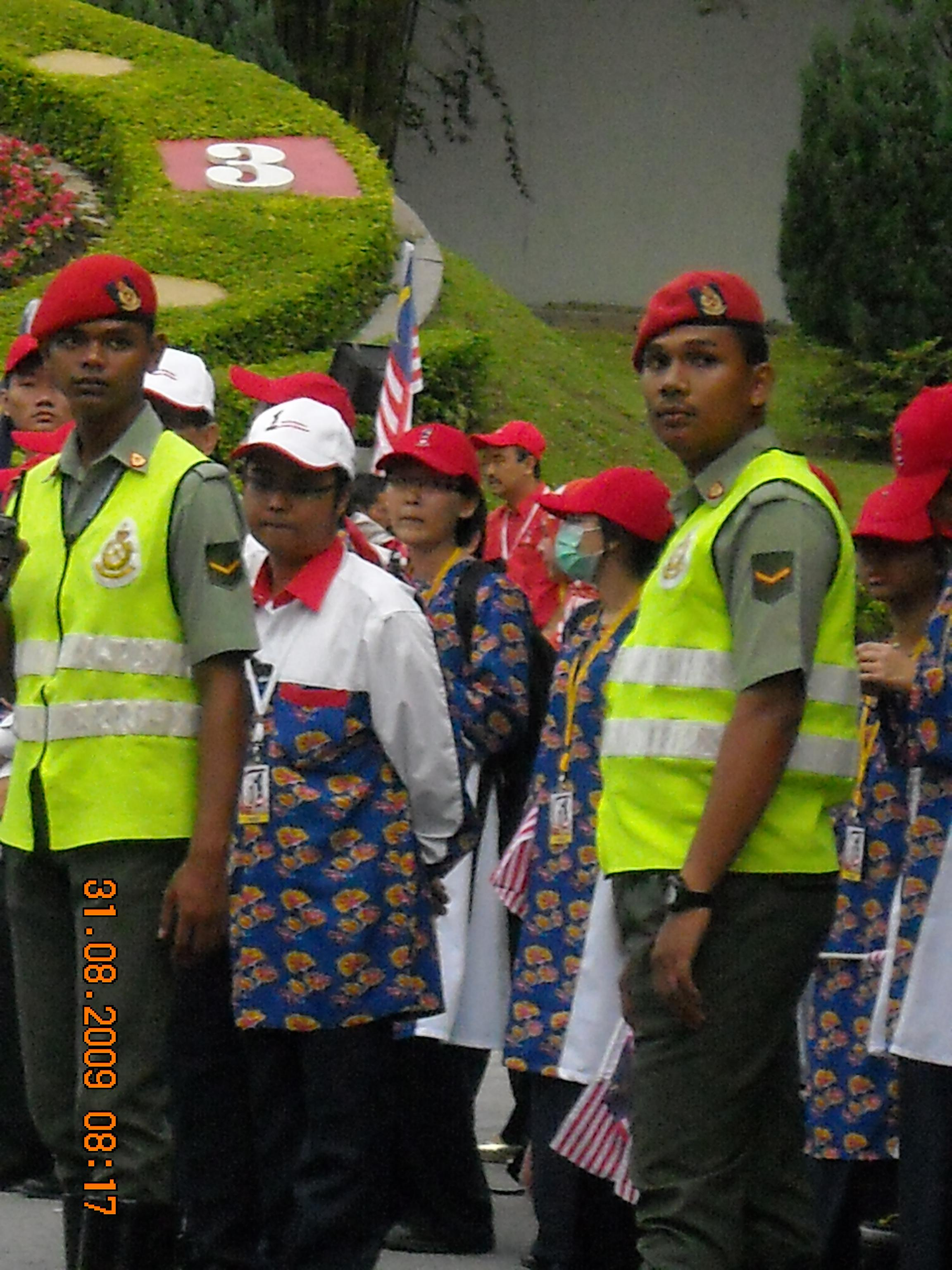 Army officers from Royal Military Police Corps (Kor Polis Tentera Diraja), Malaysian Army assisted the Malaysian policemen to securing the Parliament Square during a 52nd Independence Day parade.